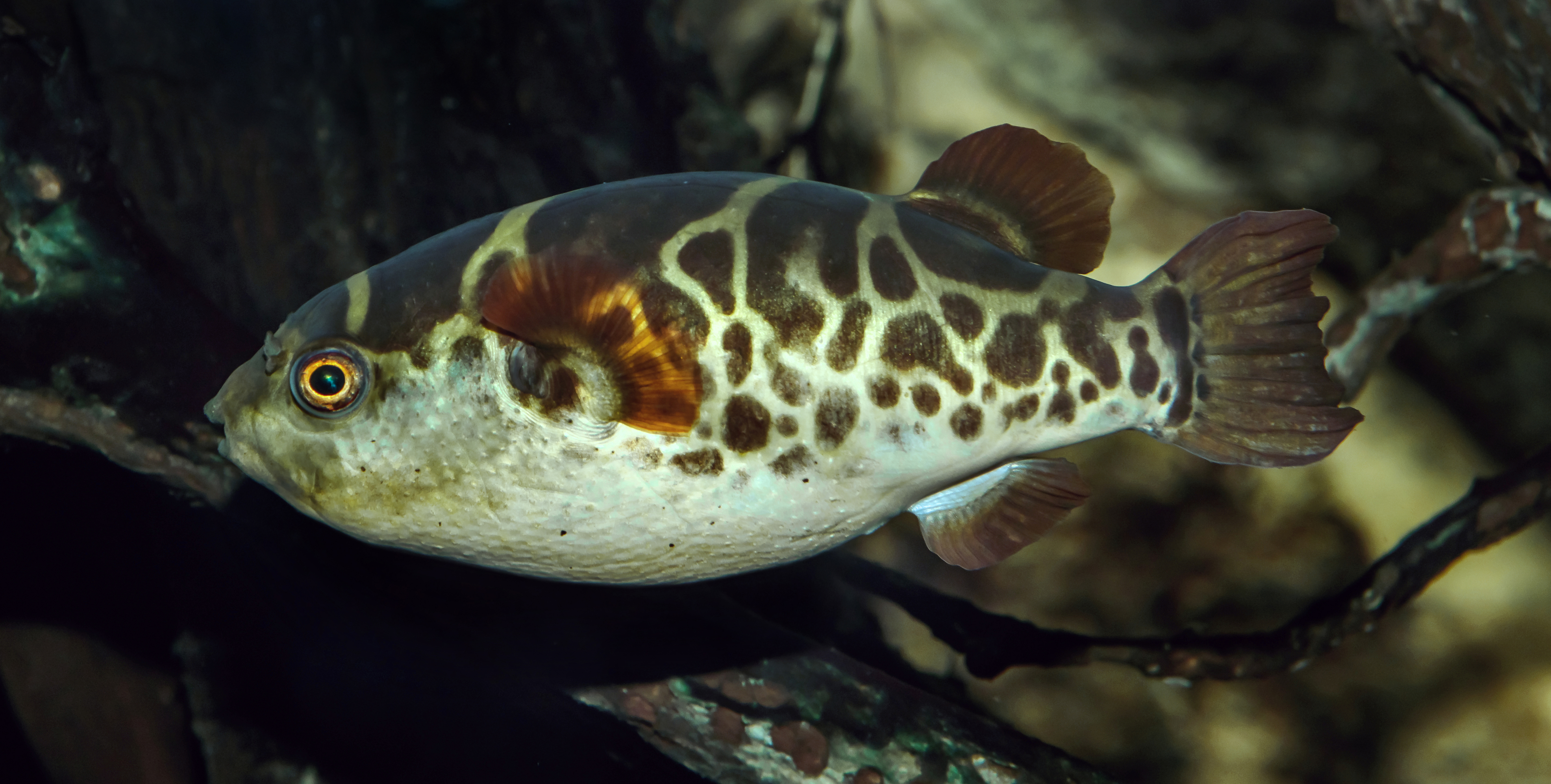 Dichotomyctere fluviatilis (Hamilton, 1822), Green pufferfish; Karlsruhe Zoo, Karlsruhe, Germany.